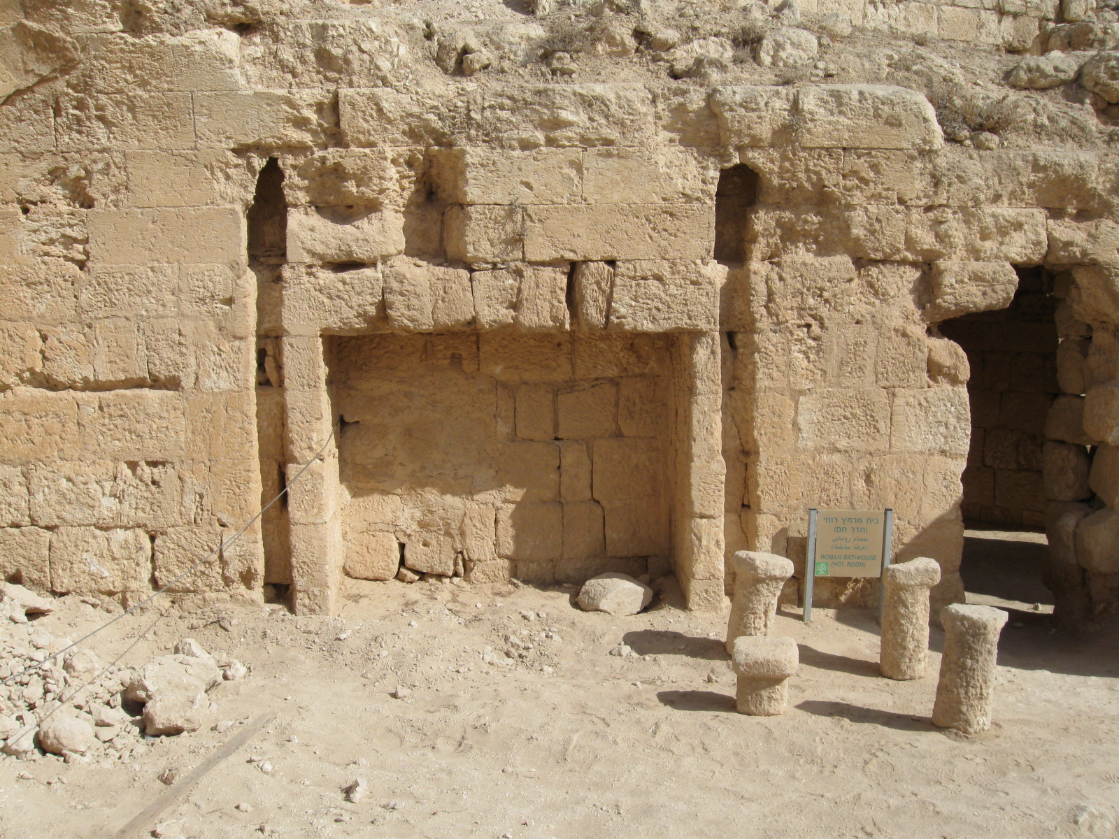 Caldarium Herodion Israel